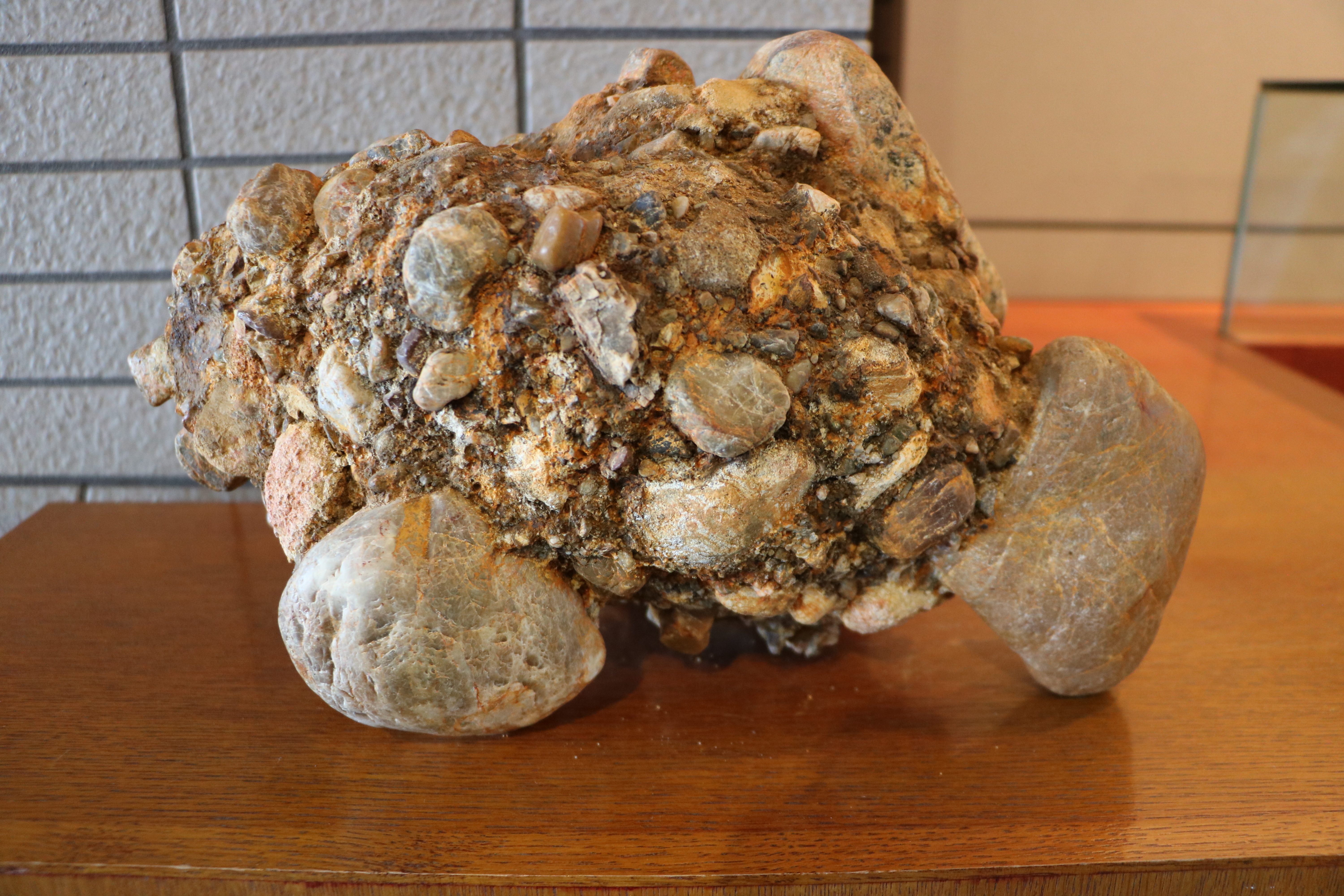 Mino no Tsuboishi. Specimen stones owned by Ceramic Techno Toki